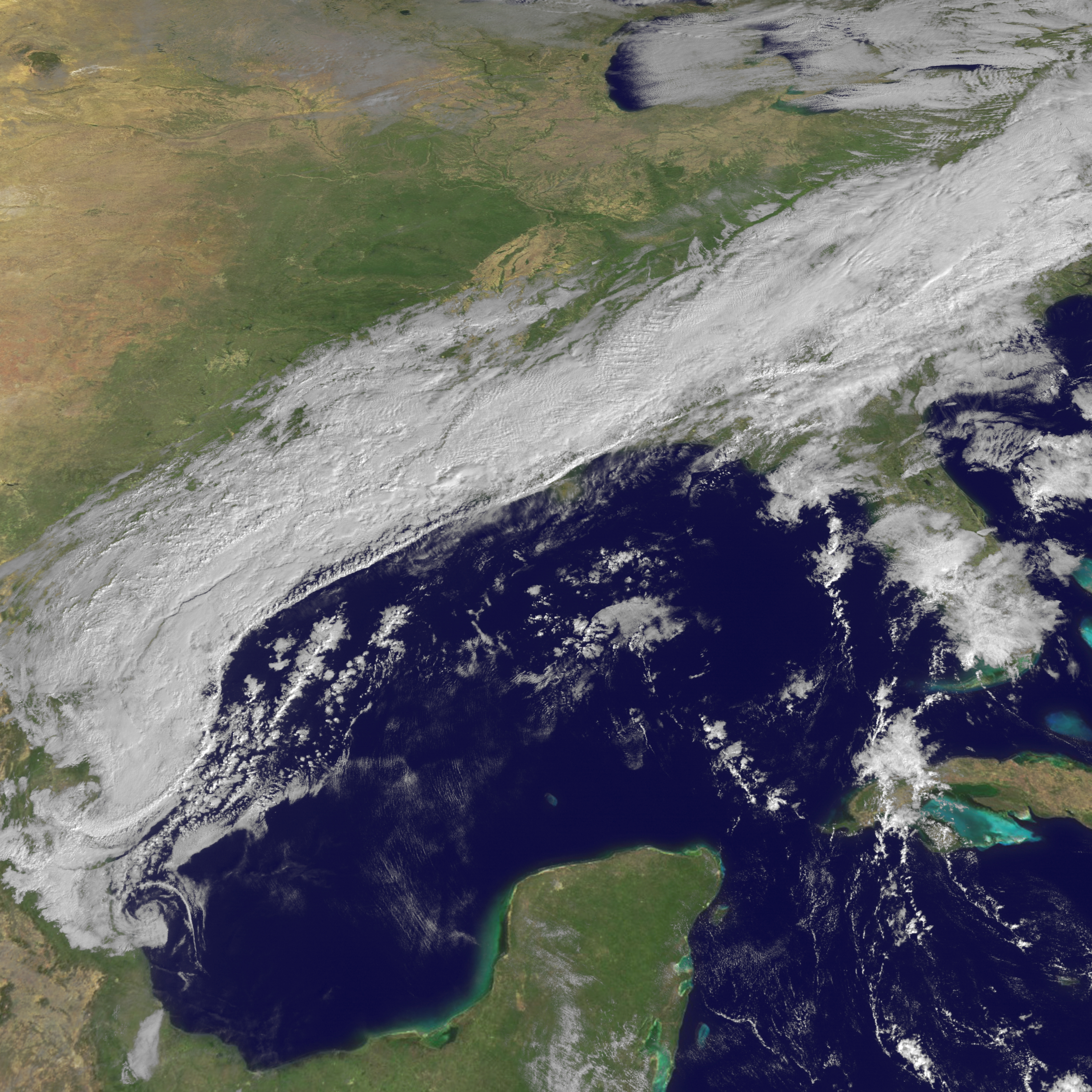 A knife-edge squall line extends across the Southeast United States. This image was observed from GOES East.